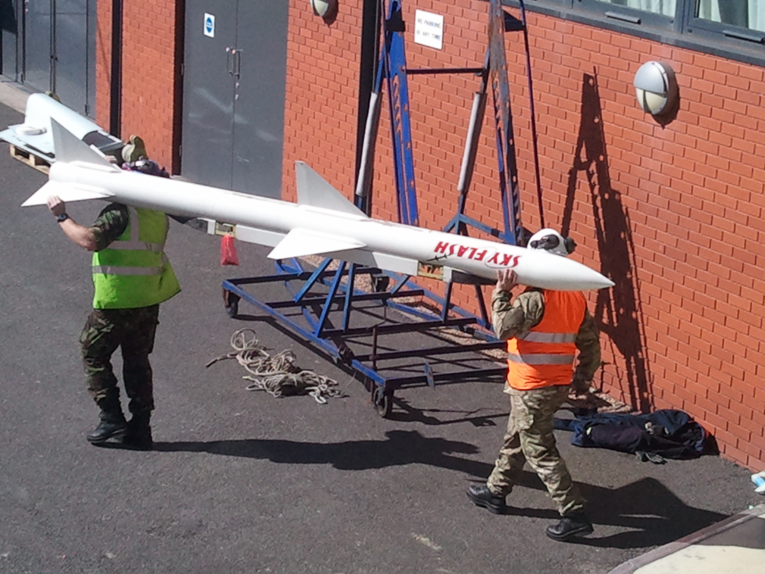 EAP Leaving Loughborough